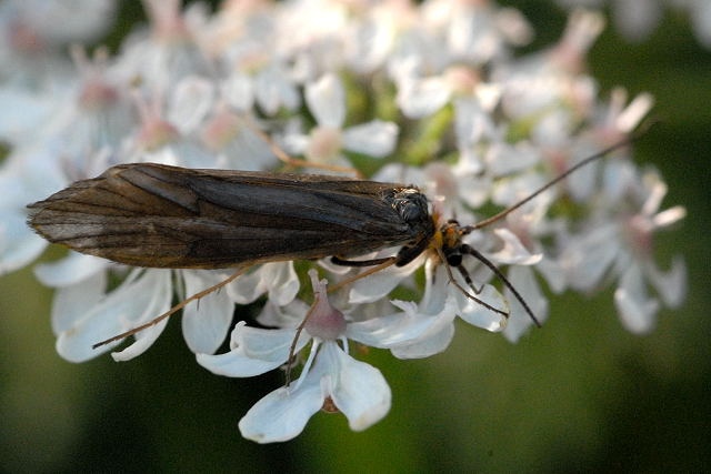 Molanna angustata Unidentified Trichoptera from Commanster, Belgian High Ardennes .